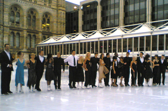 Taken by Frankie Roberto on 11/1/2006, 9:43 at the Natural History Museum.